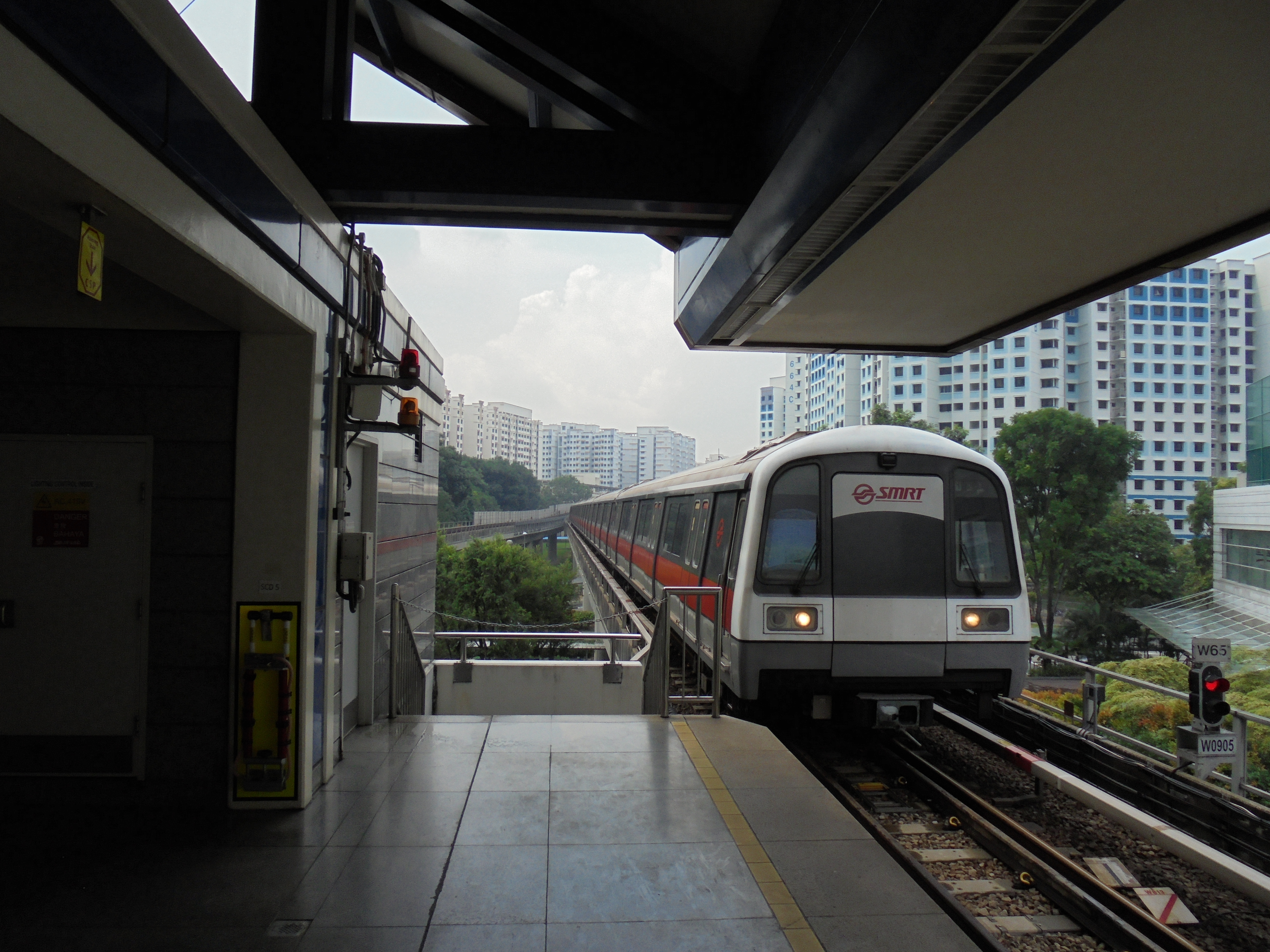 A C151 train entering boon lay mrt